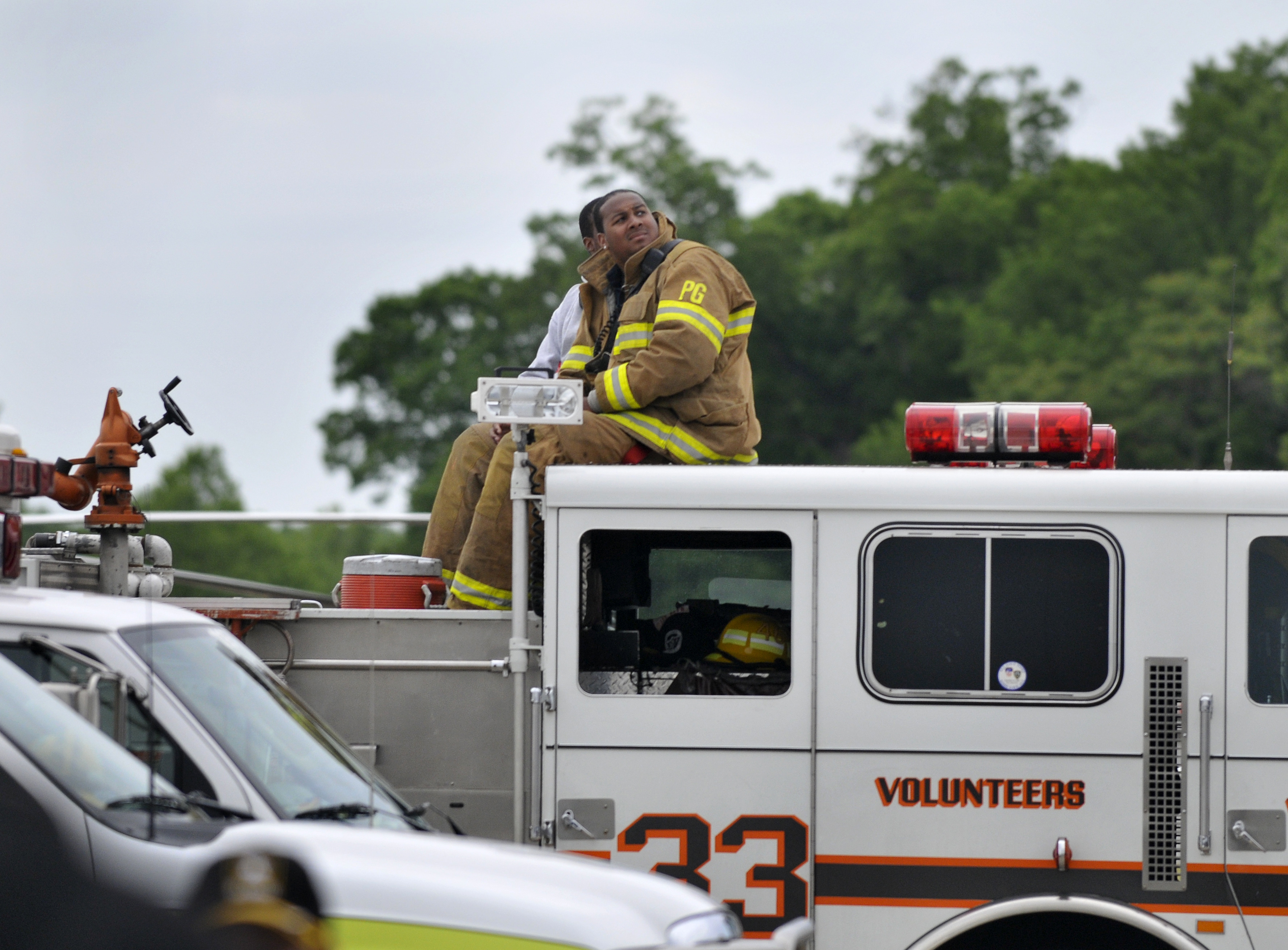 Garrett Greene, a Kentland volunteer firefigher, watches an aerial demonstration at the 2009 Joint Service Open House on Andrews Air Force Base, Md., May 17, 2009.